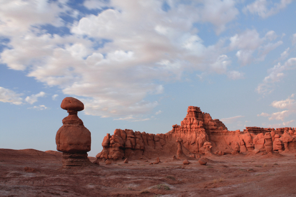 Goblin Valley State Park, Utah, USA, sunset